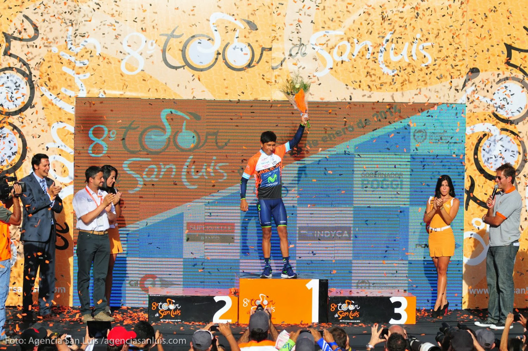 24/01/14 SAN LUIS - SAN LUIS (CRI) 19.2-Kms Media: 51,931-K/h